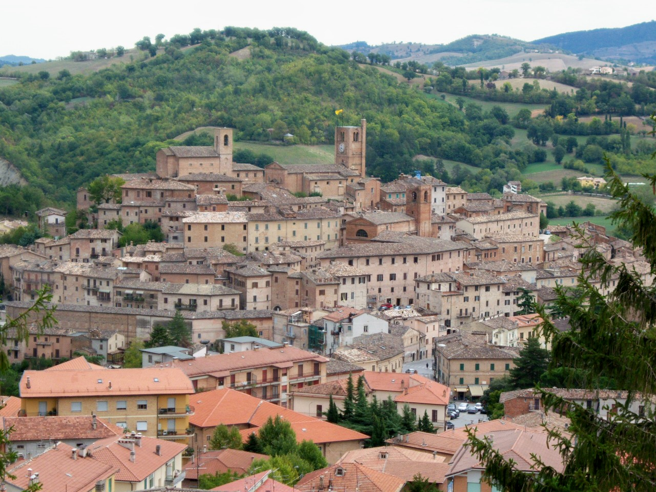 Sarnano, Le Marche, Italy